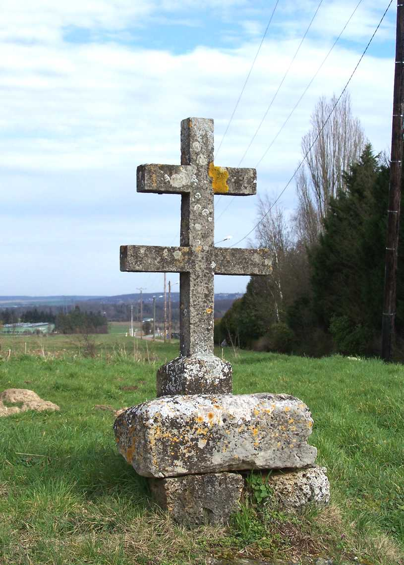 Double cross in Les Mesnuls (Yvelines, France)